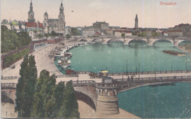 On the left side, these buildings together form "Brühl´s Terrace".